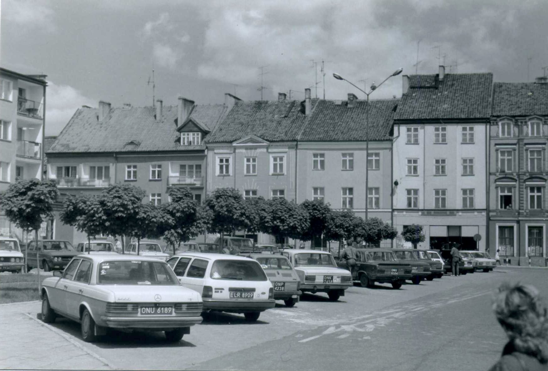 The Old town square. A nice selection of the now vanished white on black registration plates, including Olsztyn and Elblag. More about the Town here in English. 19th century buildings